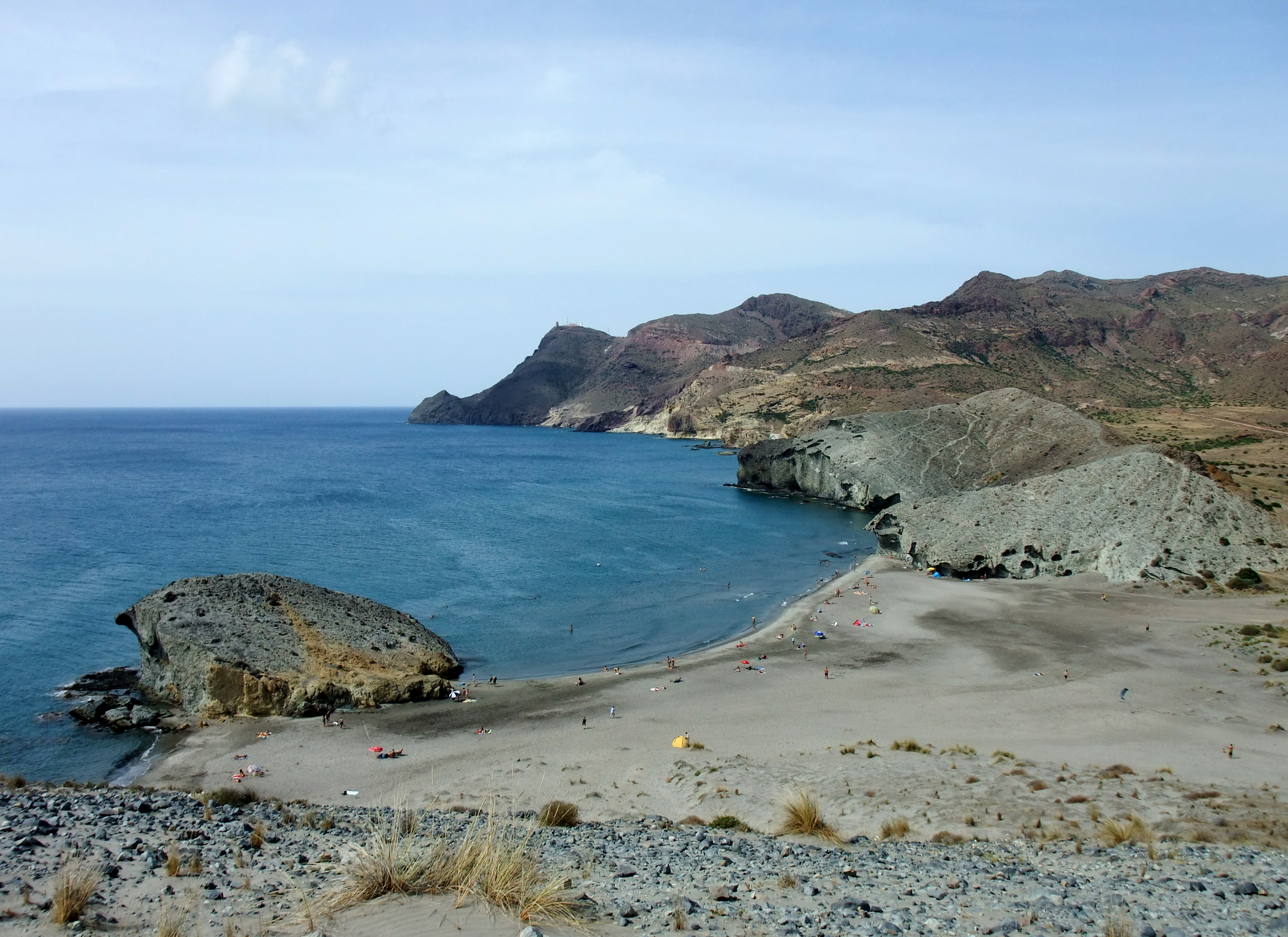 Beach of Monsul, part of the Natural Park Cabo de Gata-Nijar, Province of Almería, Spain